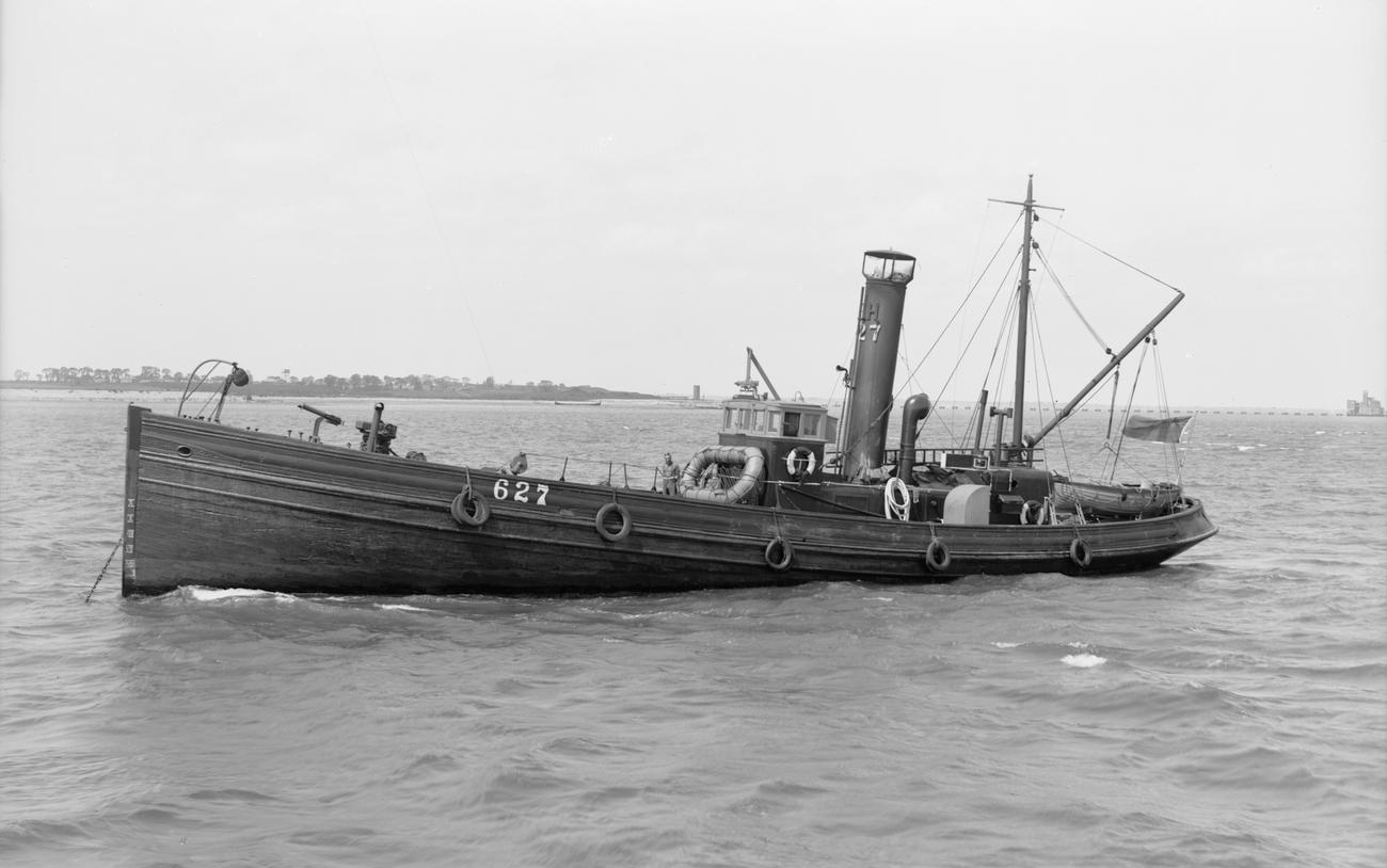 George Albert At anchor. a Great Yarmouth drifter, registration 627